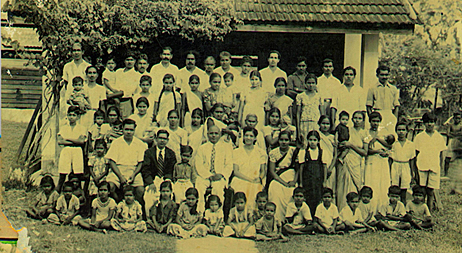 Pastor P.G. Rathnam ( black coat) local church pastor with Mr and Mrs Prasada missionaries from India, 1952